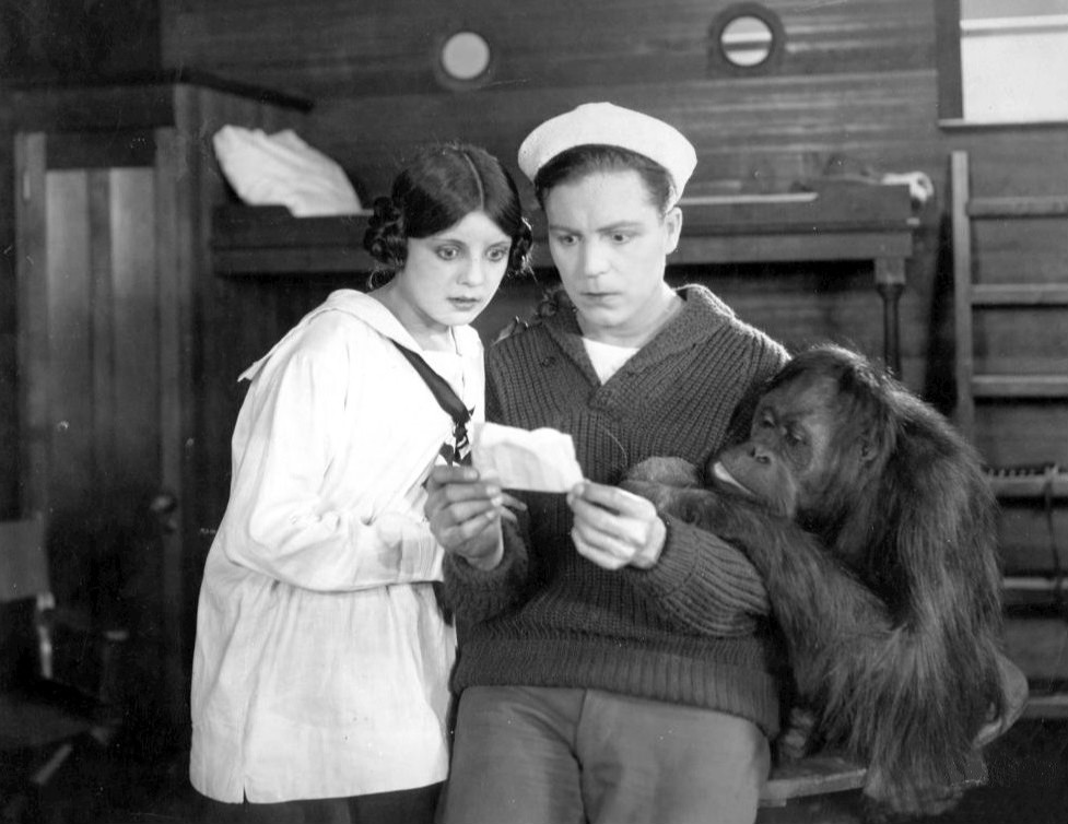 Lobby card for the American adventure film Such a Little Pirate (1918).